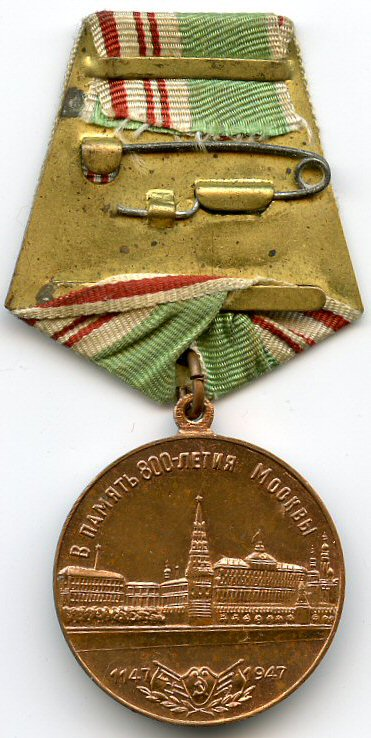 Reverse of the Medal "In Commemoration of the 800th Annicersary of Moscow" 1147 - 1947